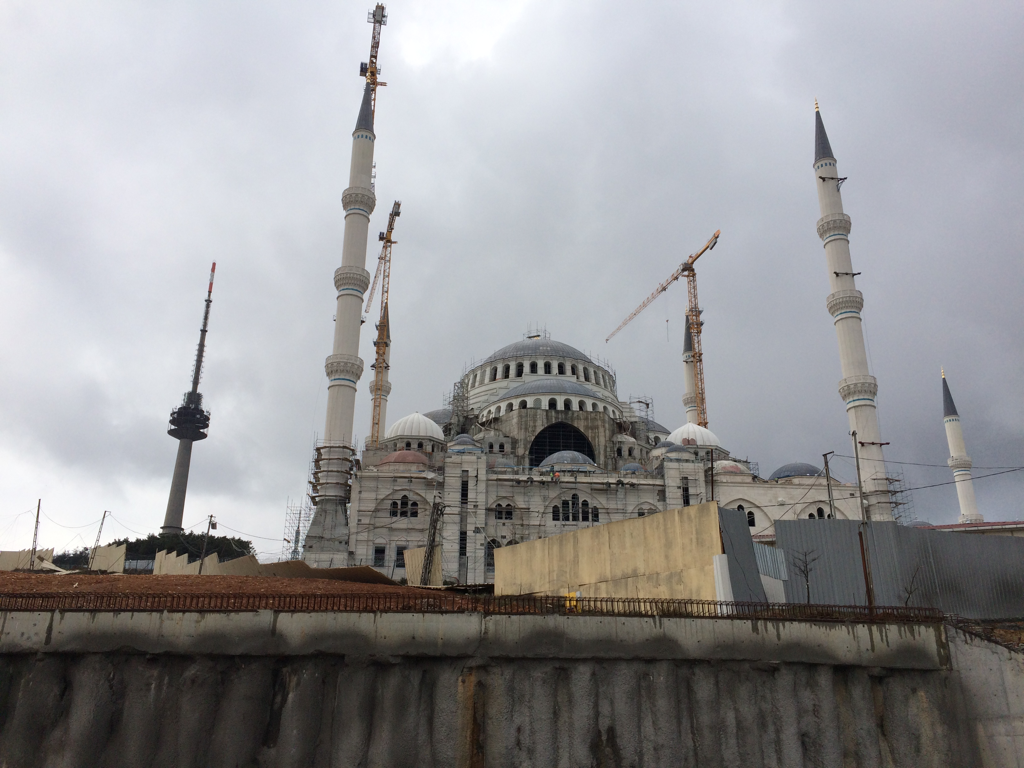 Çamlıca Mosque, construction Feb 2017